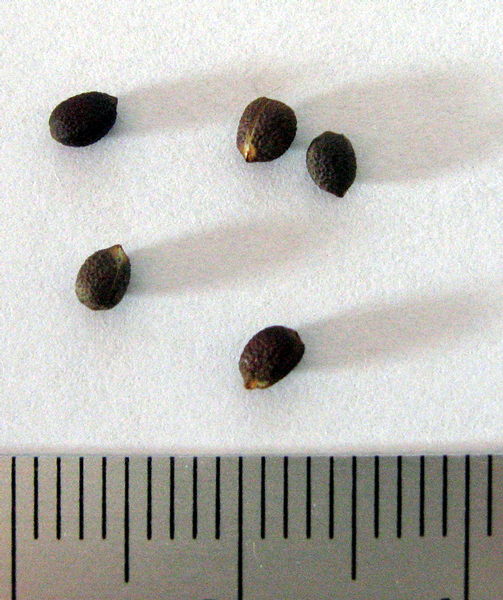 Seeds of Euphorbialeuconeura, scale is in cm